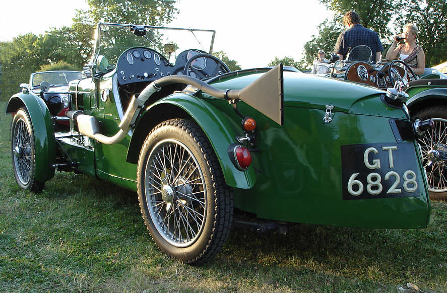 MG C type rear view.(DVLA) first registered October 1931 746 cc